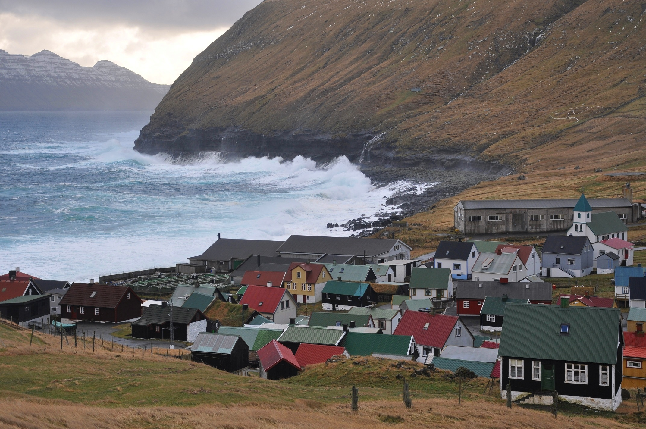 Choppy seas and heavy surf at Gjógv (Eysturoy, Faroe Islands, Denmark).